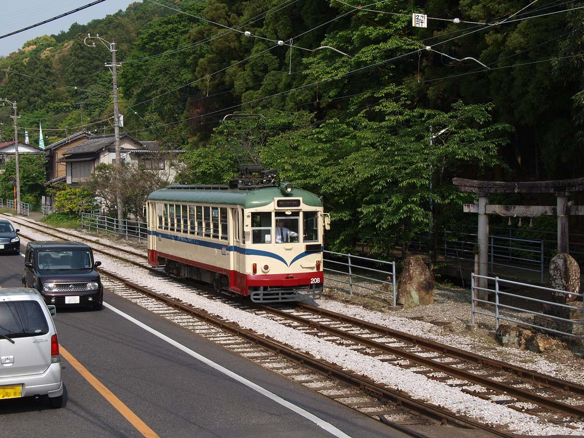 Tosa electric railway No.208 between Kitaura and Funato.